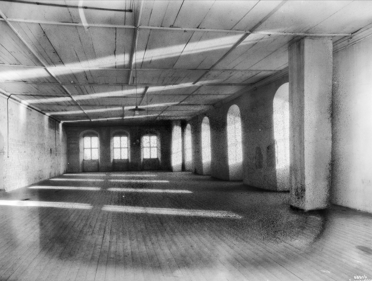 Christian IVs sal 1923